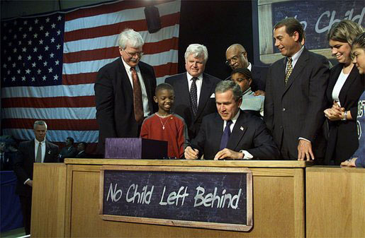 Visiting Hamilton High School in Hamilton, Ohio, Jan. 8, 2002, President George W. Bush signs into law the No Child Left Behind Act. On hand for the signing are Democratic Rep. George Miller of California (far left), Democratic U.S. Sen. Edward Kennedy of Massachusetts (center, left), Secretary of Education Rod Paige (center, behind President Bush), Republican Rep. John Boehner of Ohio, and Republican Sen. Judd Gregg of New Hampshire (not pictured). White House photo by Paul Morse.